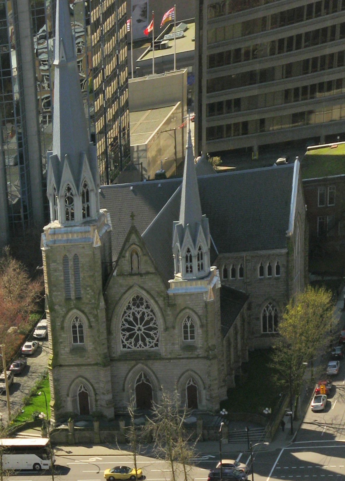 Holy Rosary Cathedral, Vancouver. Taken by me, March 2007